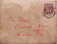 Jack the Ripper's "Dear Boss" letter envlope.